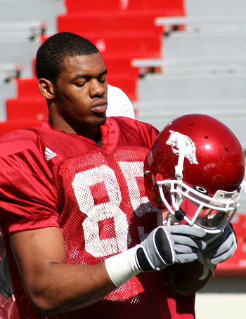 Photograph of Greg Childs of the University of Arkansas Razorbacks football team at 2010 Spring Practice